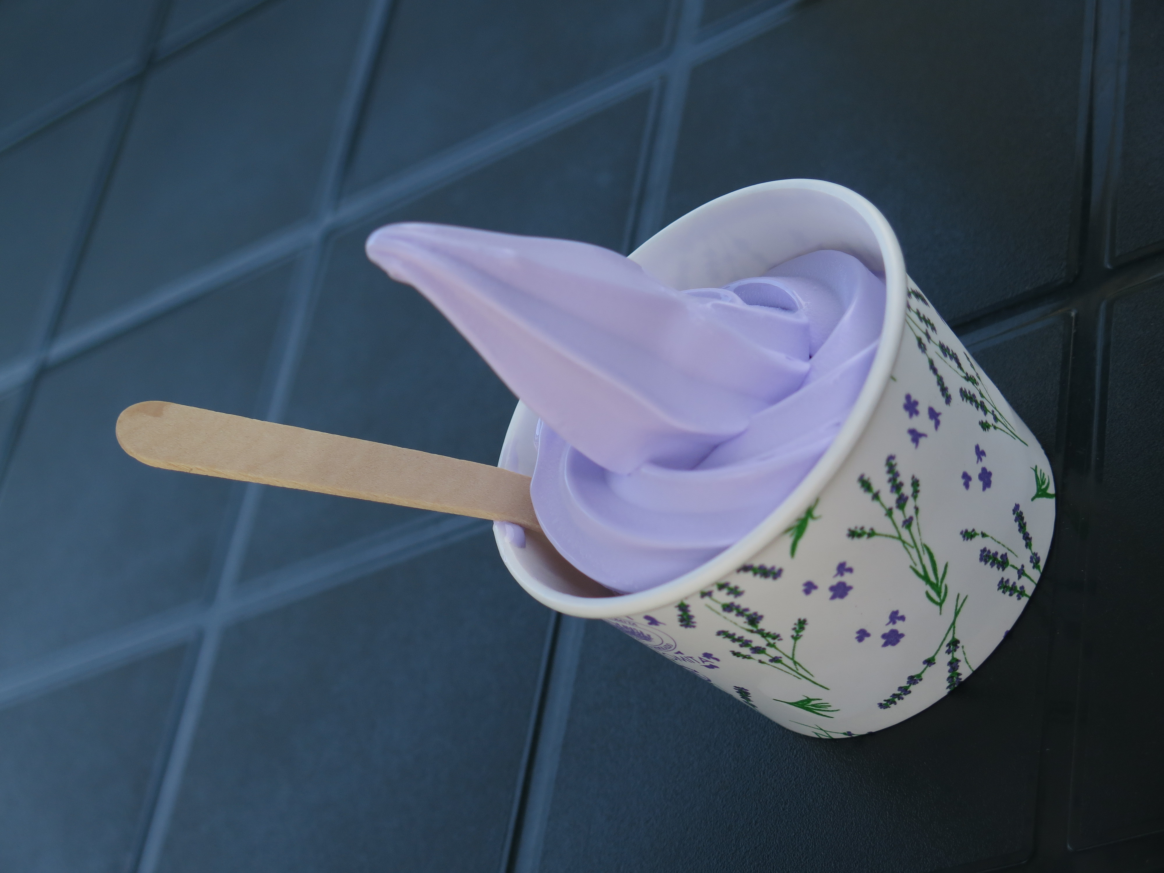 Lavender soft serve ice cream. Farm Tomita. Furano, Hokkaido, Japan.